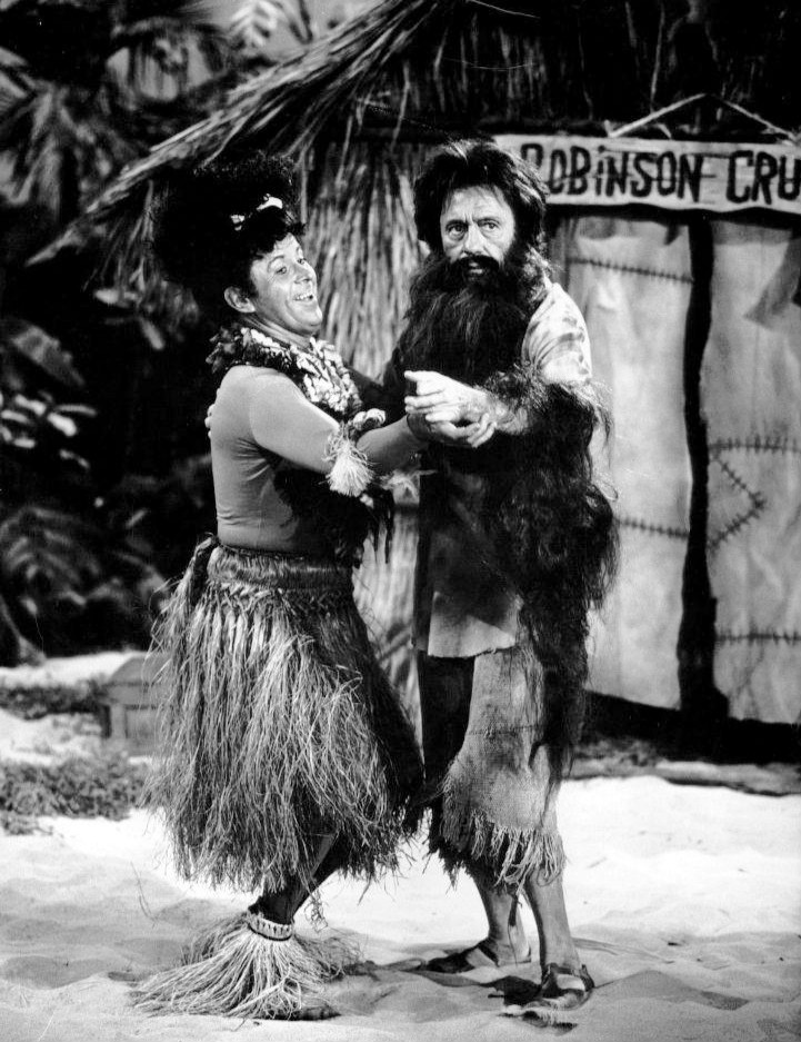 Photo of Dennis Day and Jack Benny in a Robinson Crusoe skit from the television program The Jack Benny Show. Benny plays Crusoe while Day is one of the island's natives. Day was a regular cast member of the Benny show on both radio and television.